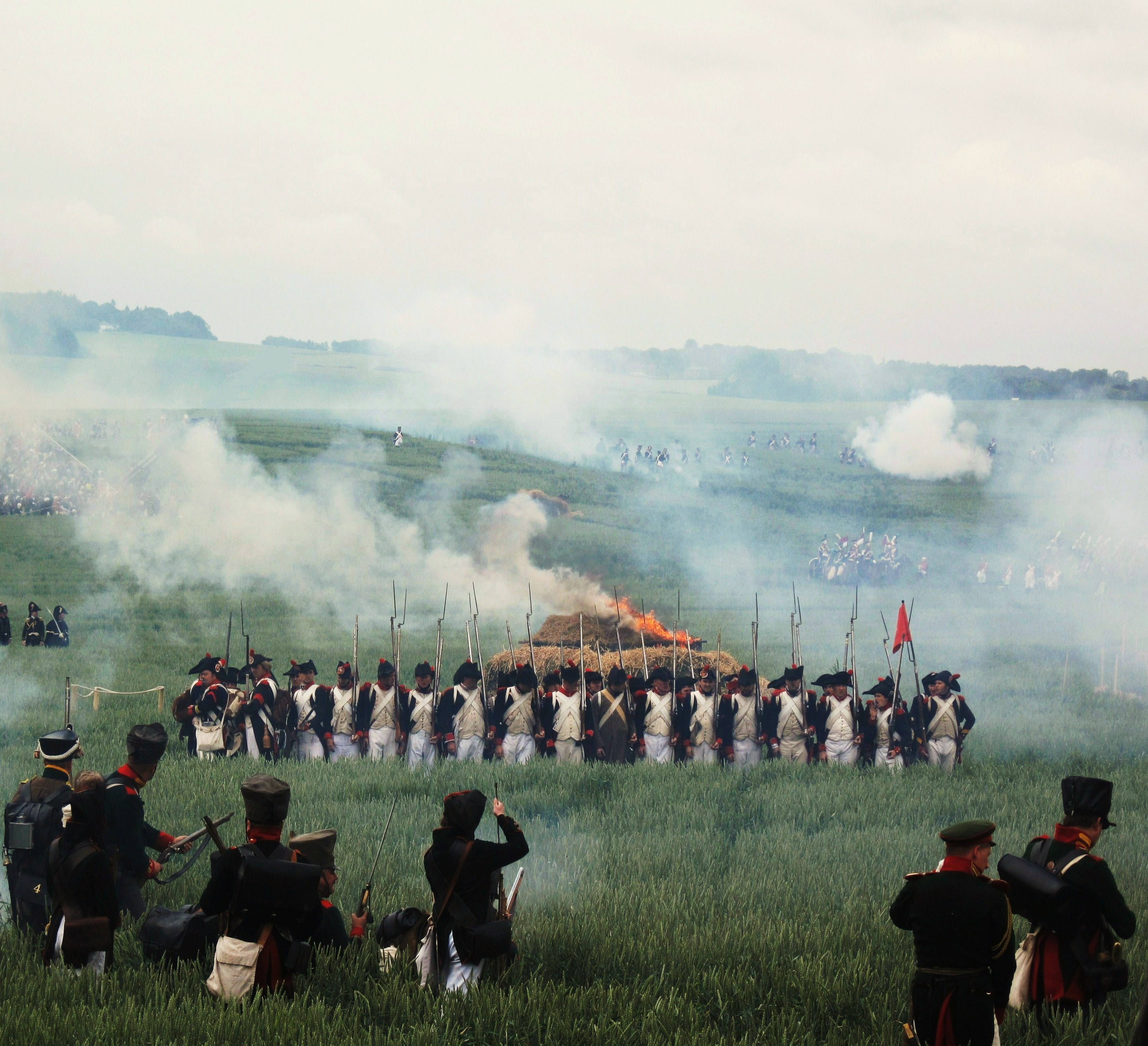 Battle of Waterloo reconstituted 2010-06-20